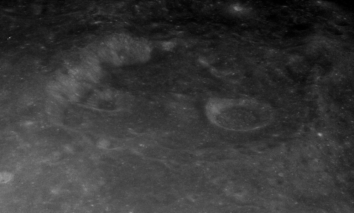 Oblique view of Pannekoek, 71 km diameter, on the far side of the moon. Facing southeast.